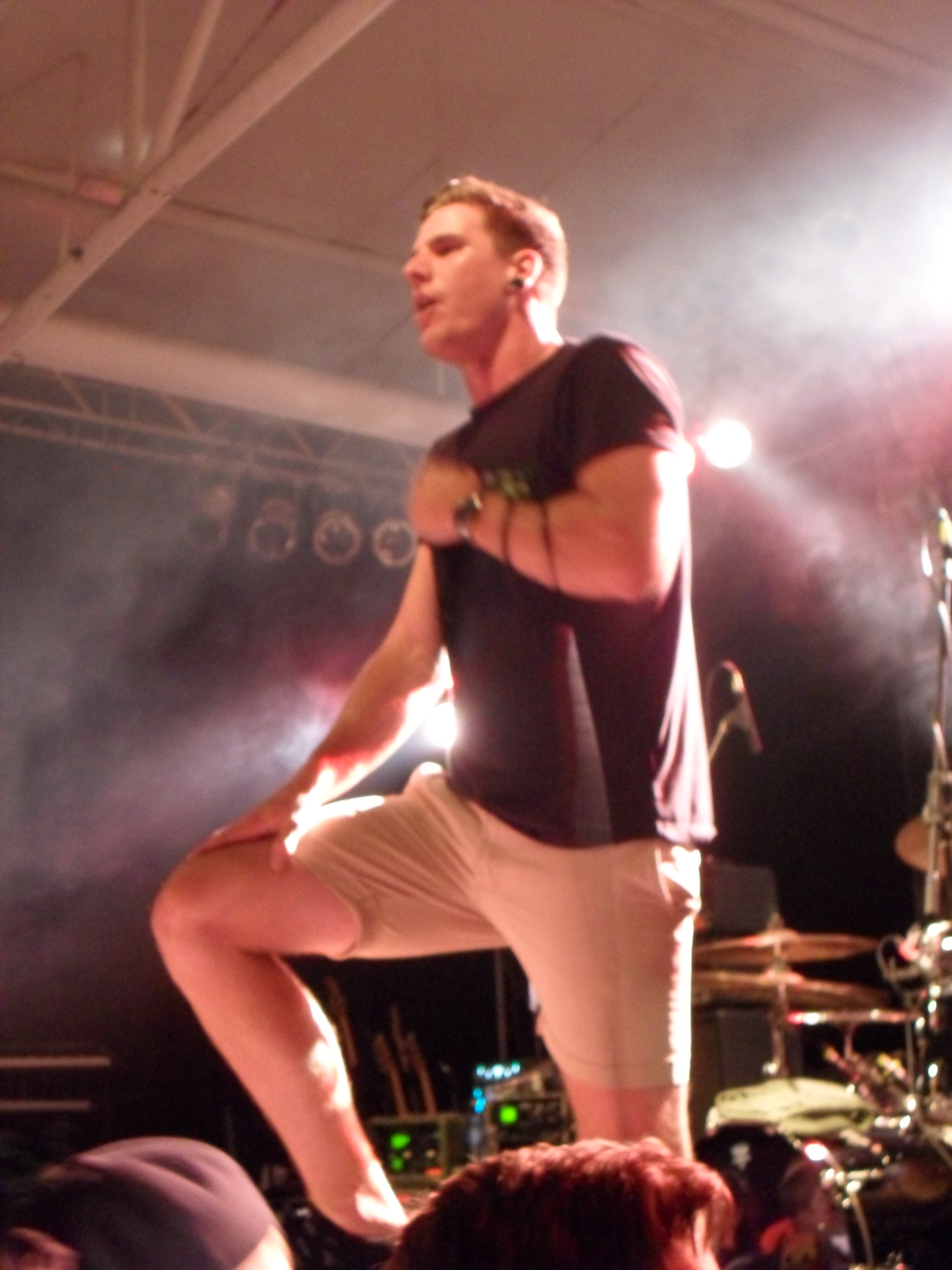 Scott (vocalist of Hand of Mercy) during the Never Say Die! Tour 2013 at Essigfabrik in Cologne